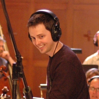 Graves in 2008